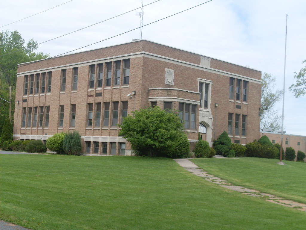 Campus for the former Border City Union Free School and Border City Elementary School in the Town of Waterloo, NY.